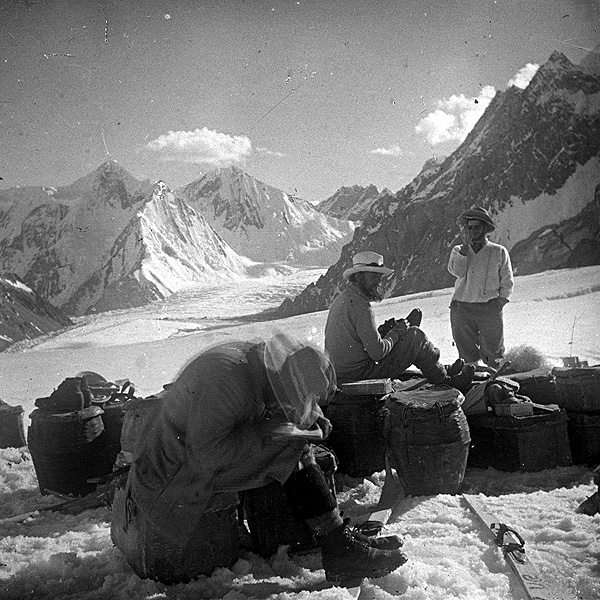 The base camp of 1902 expedition for K2. Aleister Crowley is in setted in the middle.